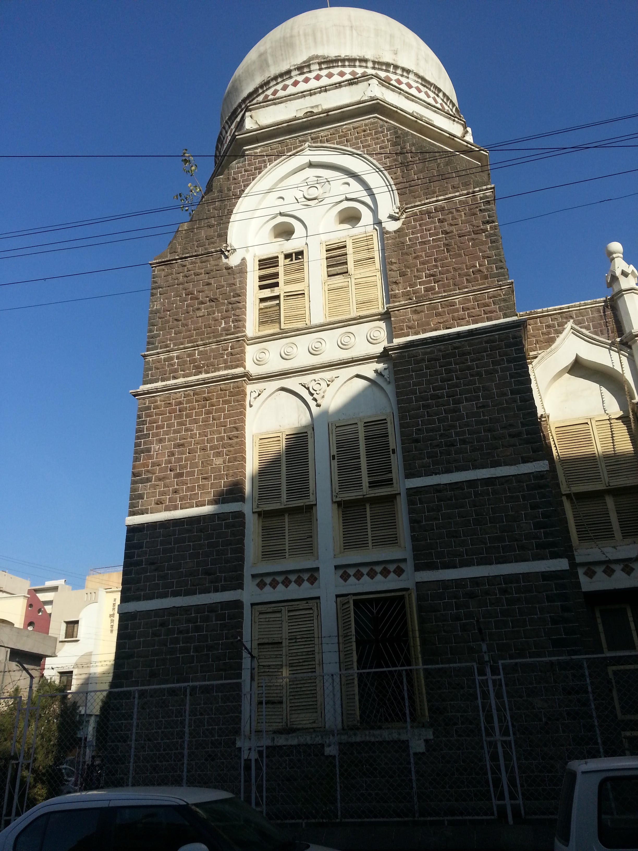 Hume Memorial church Ahmadnagar, Maharashtra India.Established in 1833